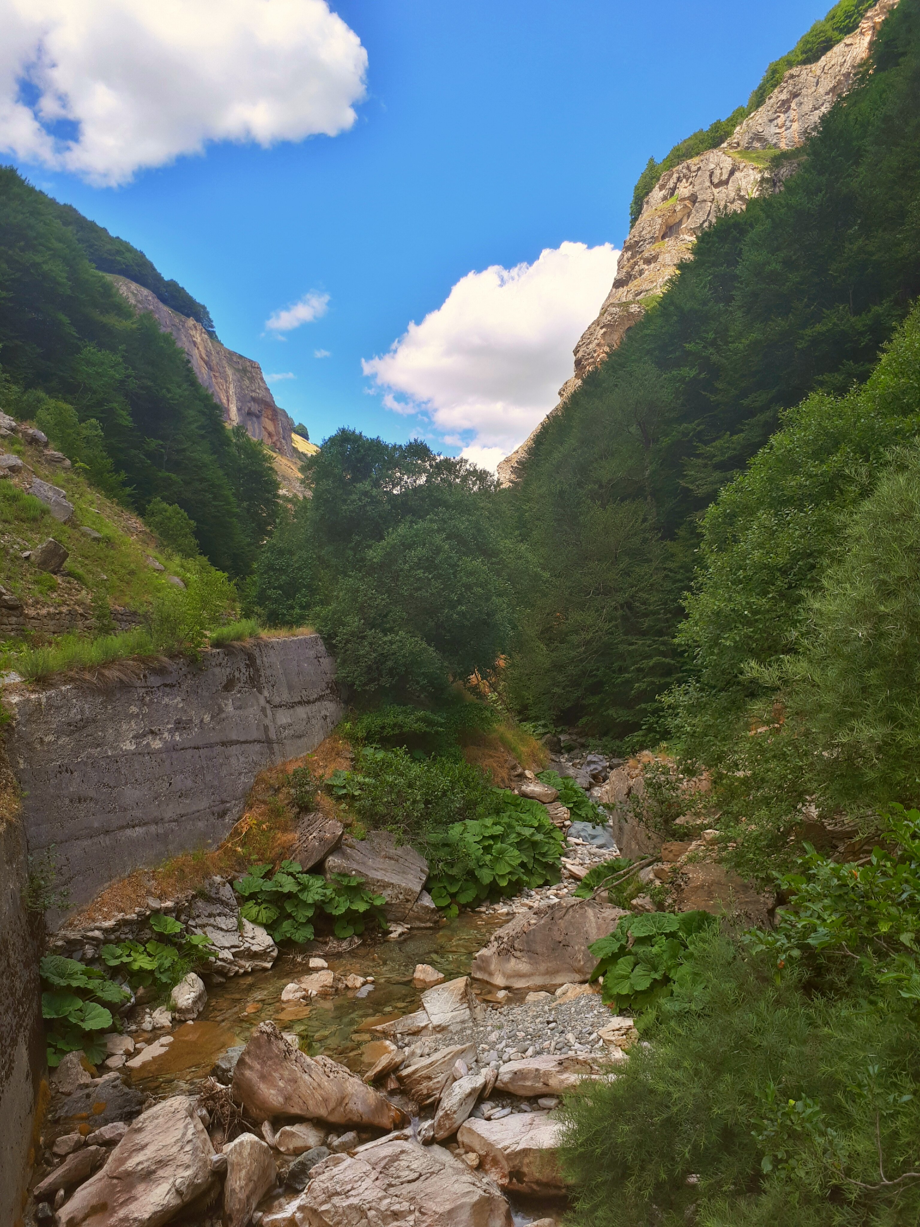 Adžina River near its mouth to Radika